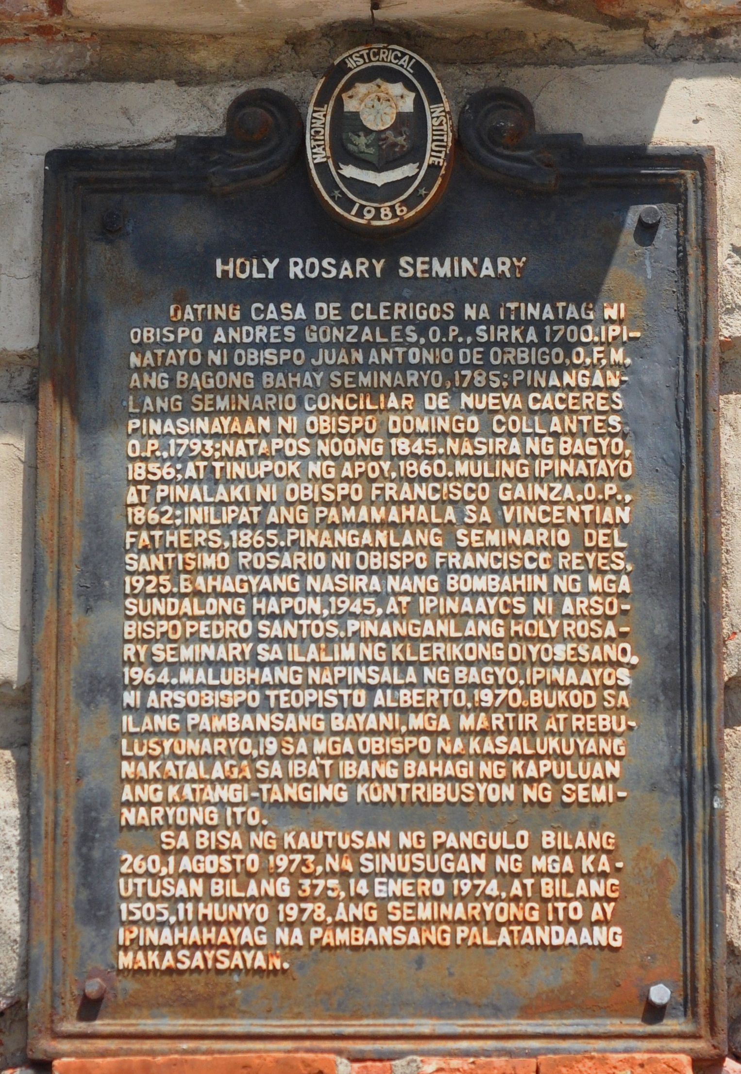 A National Historical Commission of the Philippines marker erected in 1988